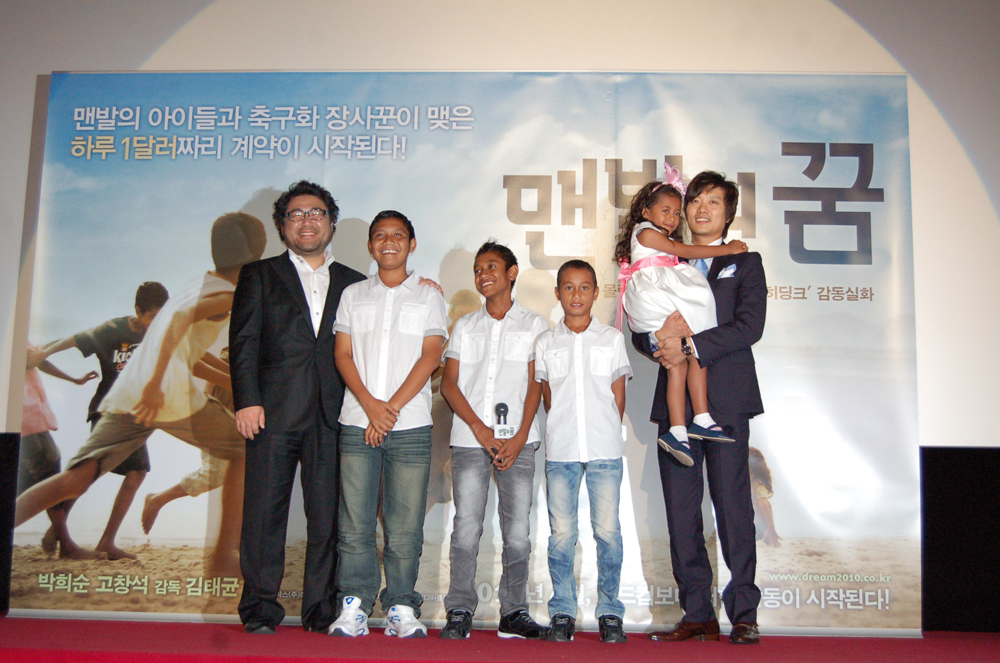 A Barefoot Dream